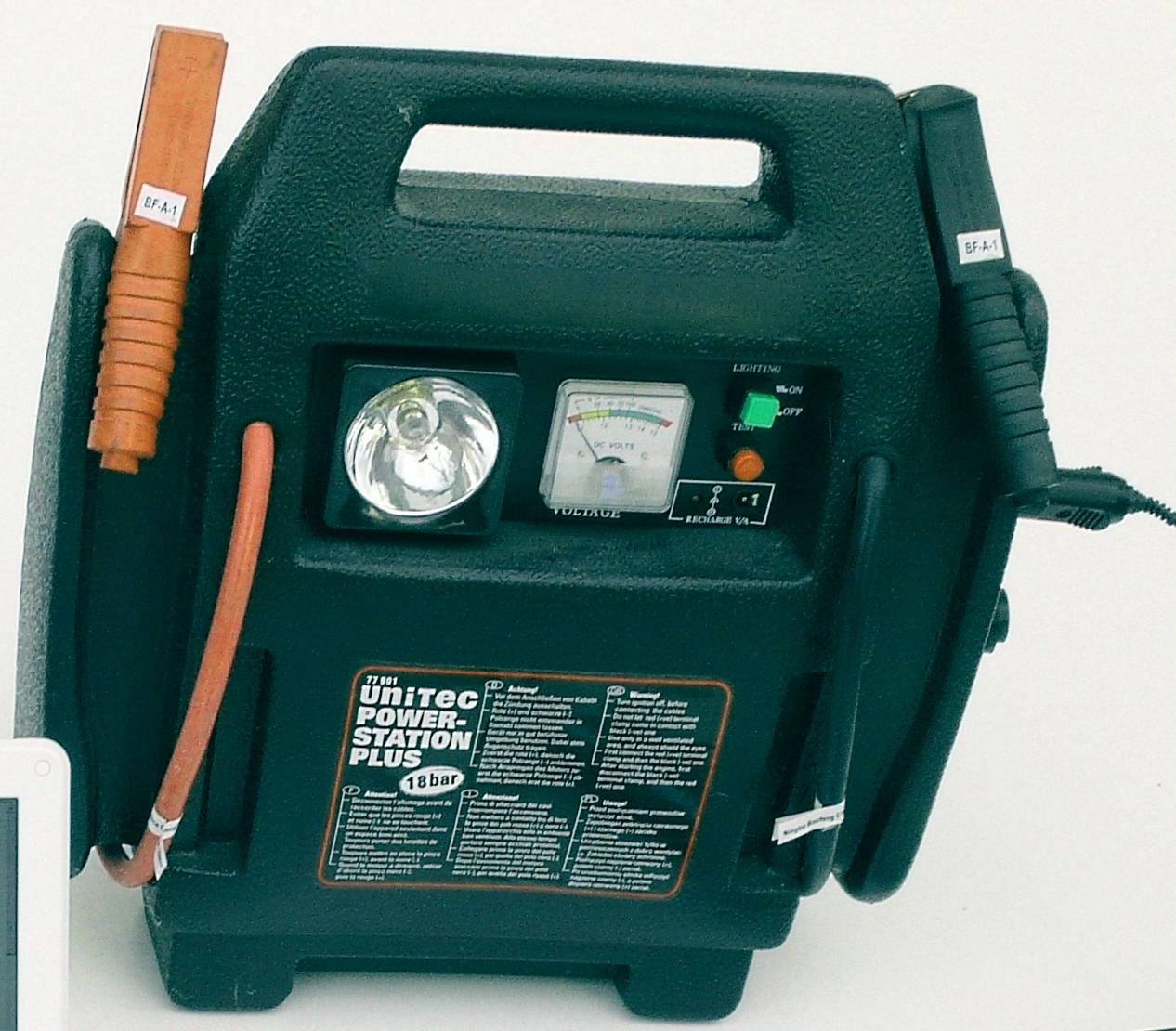 12 volt power station (17 Ah Battery)